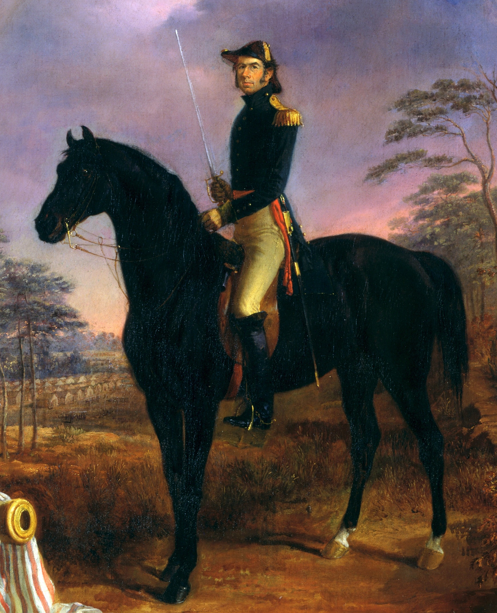 Portrait of John Hartwell Cocke II of Bremo (1780–1866), American brigadier general in the War of 1812.